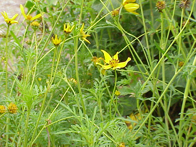 Species: Bidens ferulifolia. Family: Asteraceae Image No. 4